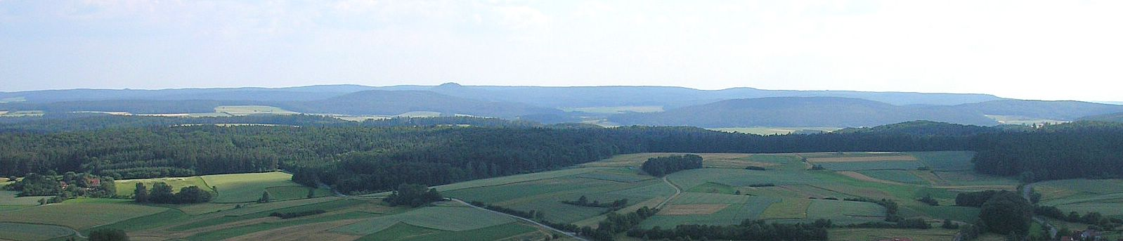 Zeilberg near Maroldsweisach (Landkreis Haßberge, Lower Franconia, Germany). Looking west to the Hassberge hills